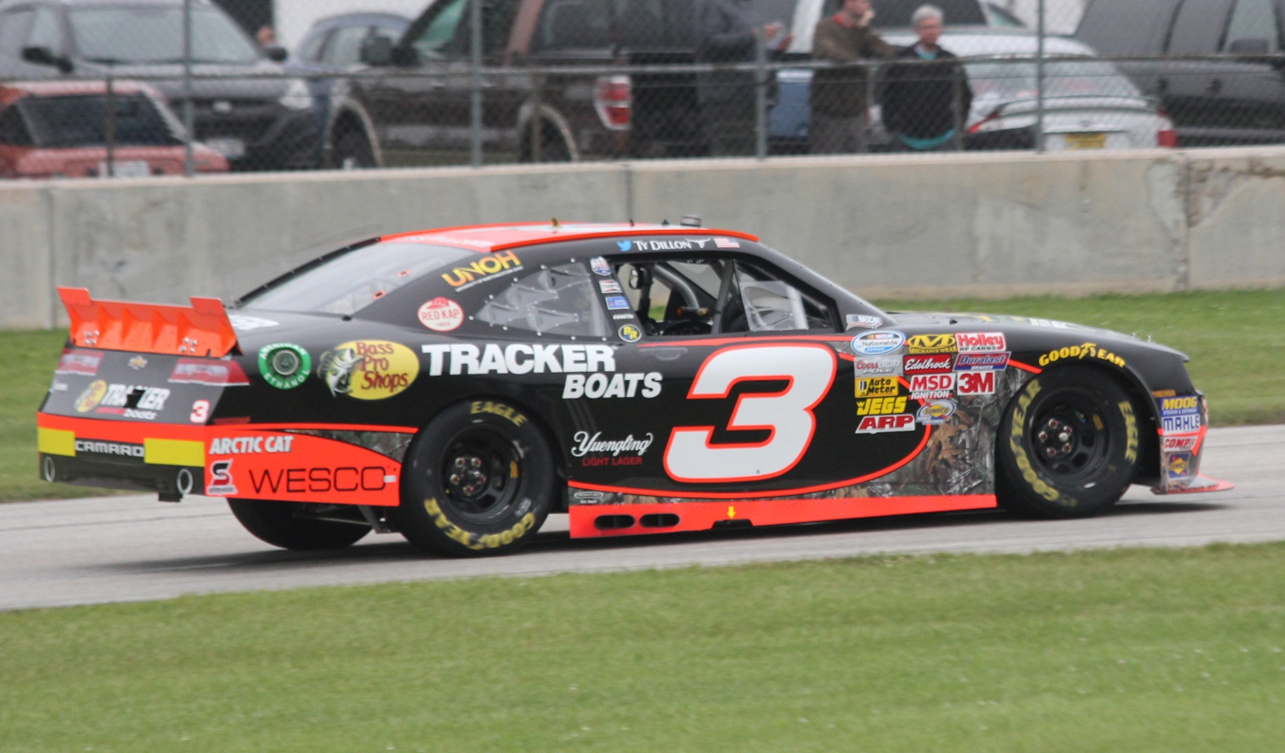 The passenger side of Ty Dillon Nationwide car during the 2014 Gardner Denver 200 at Road America. Taken racing up the hill in turn 13.